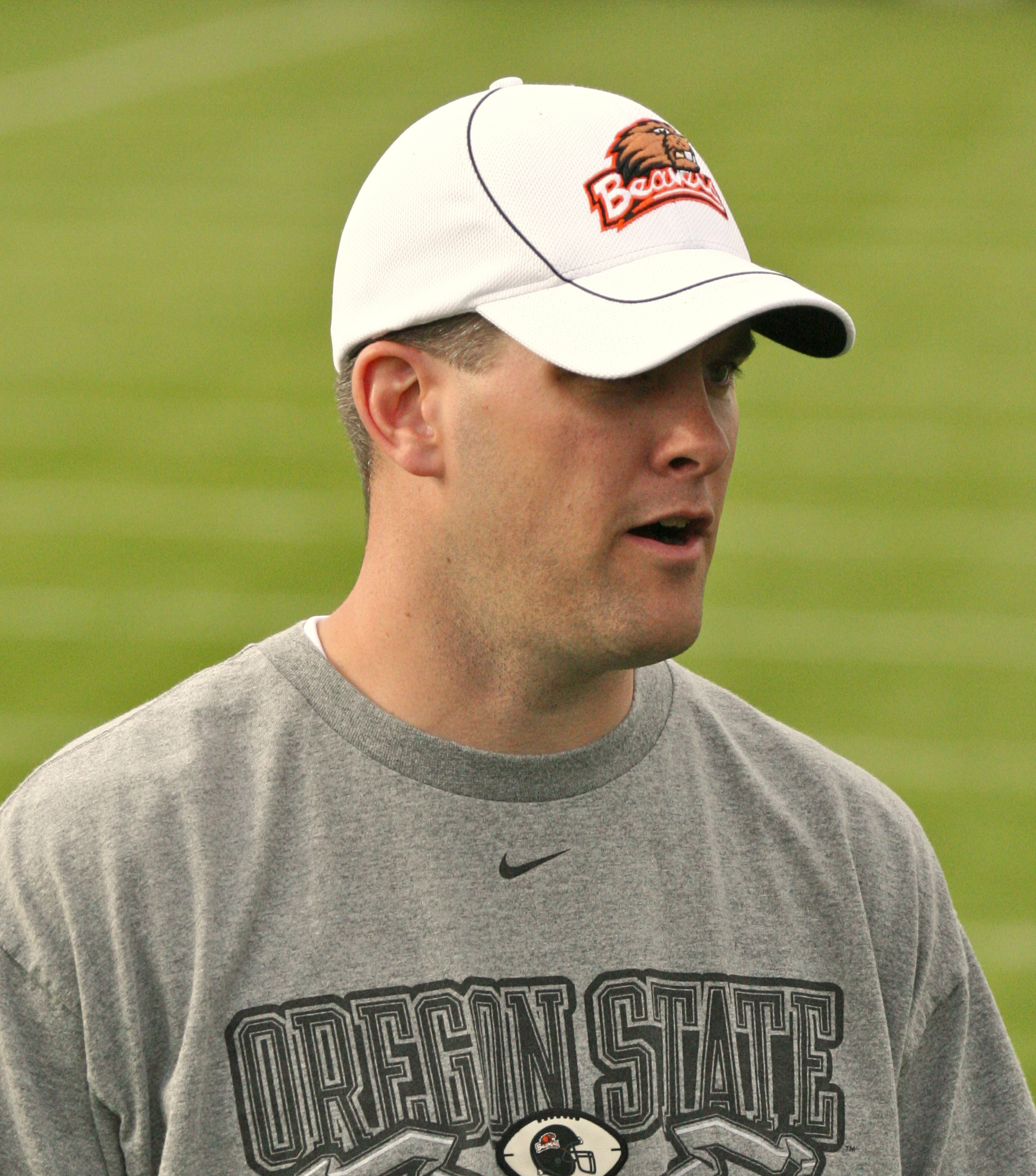 Coach Langsdorf is interviewed by the press.